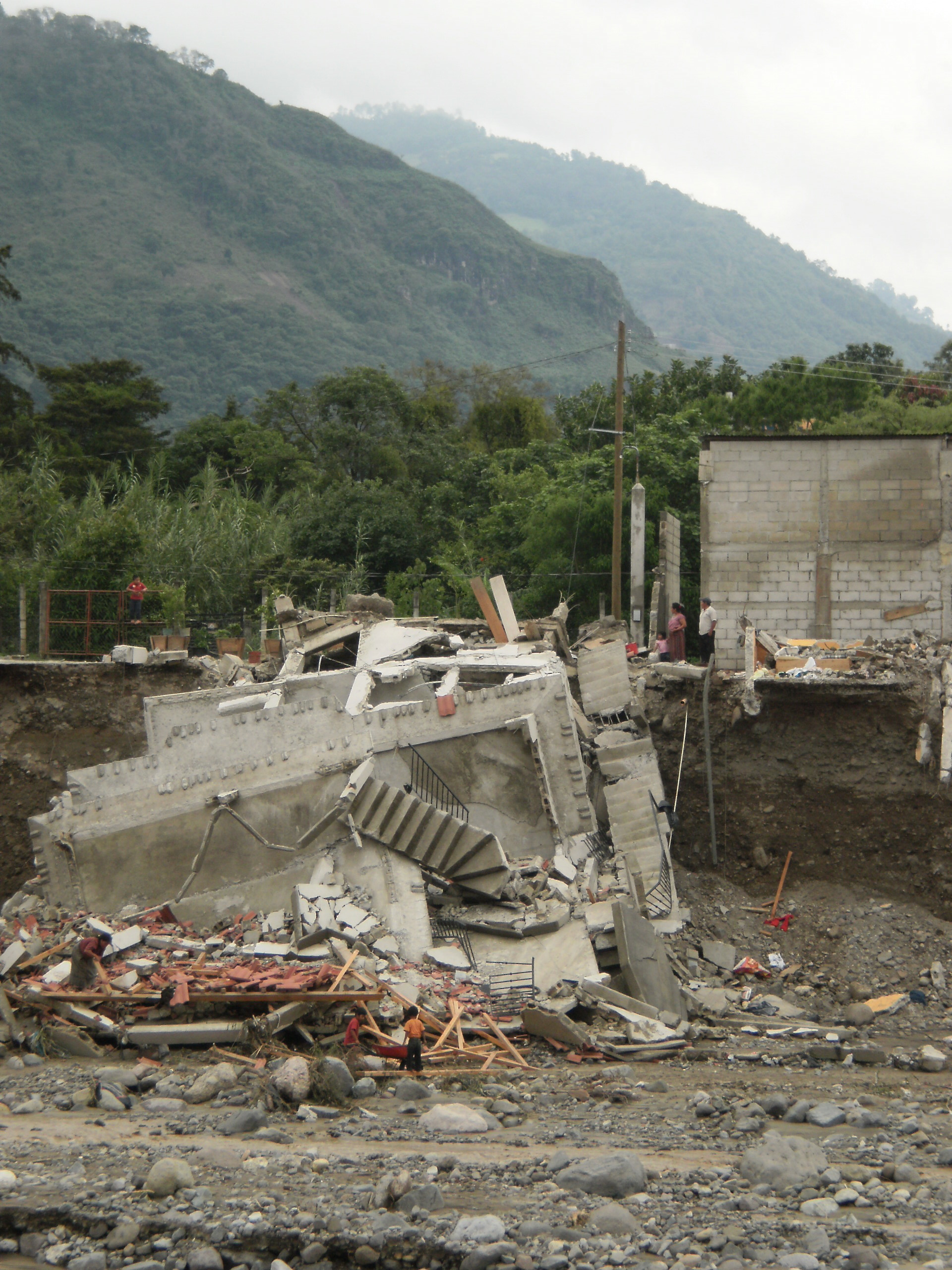 Destruction from Tropical Storm Agatha (2010) in Guatemala.